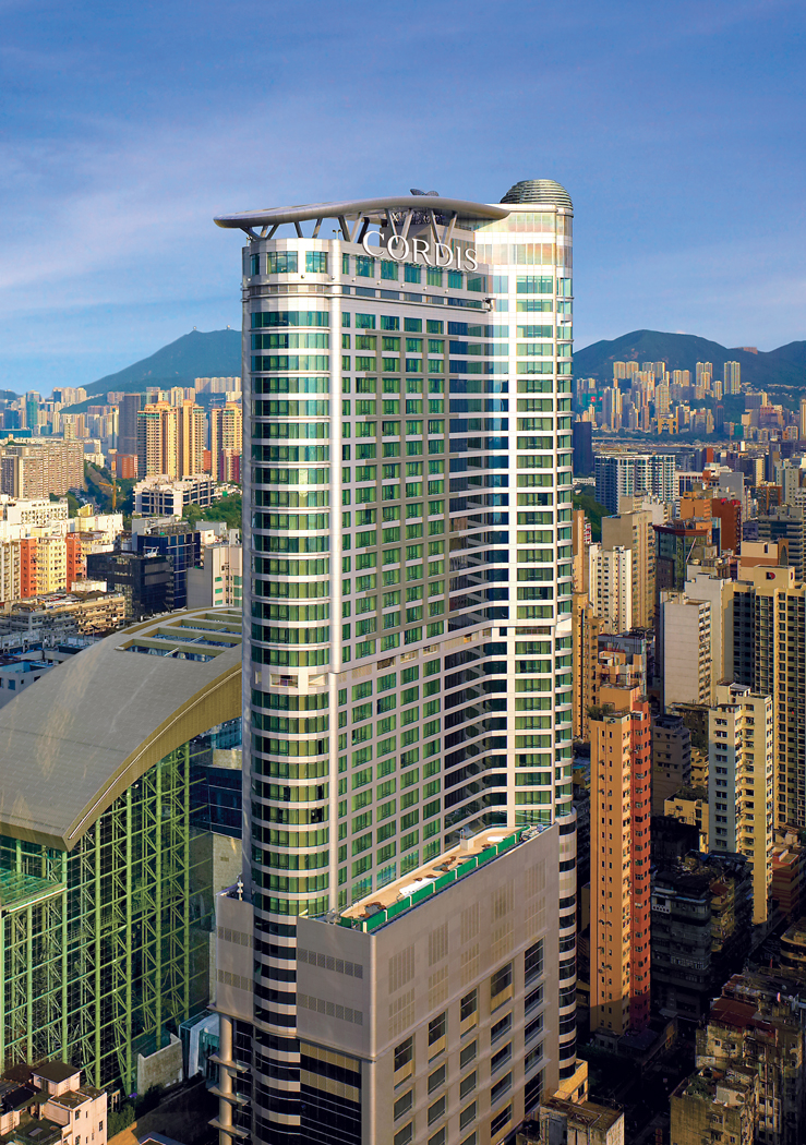 CDHKG Exterior Day lores